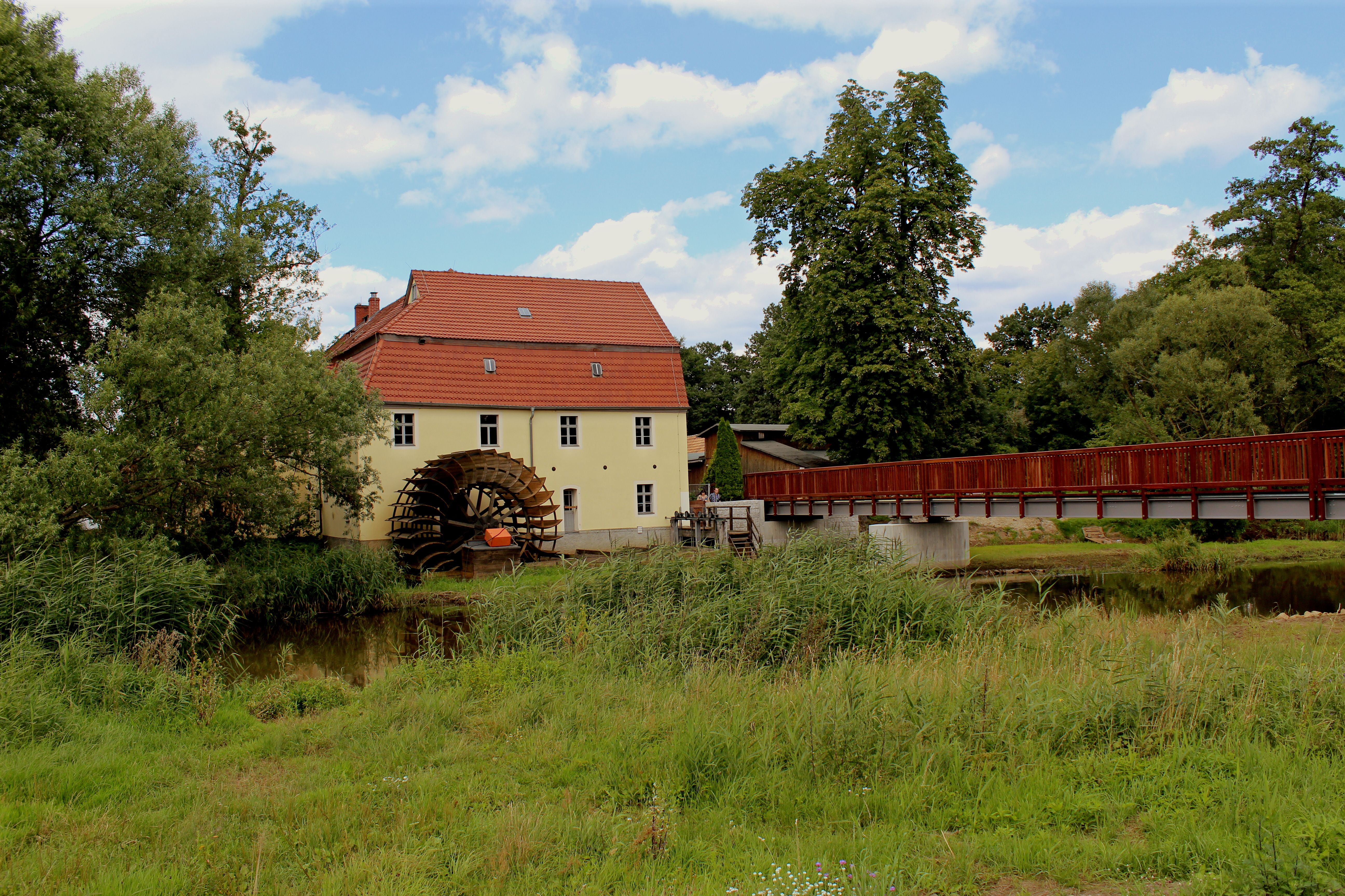 Watermill on the river Schwarze Elster in Plessa.